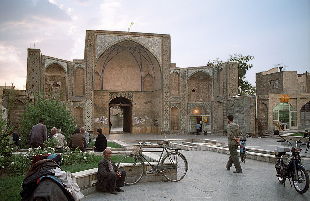 The gate to the Masjid-e Jomeh, Qazvin, Iran.